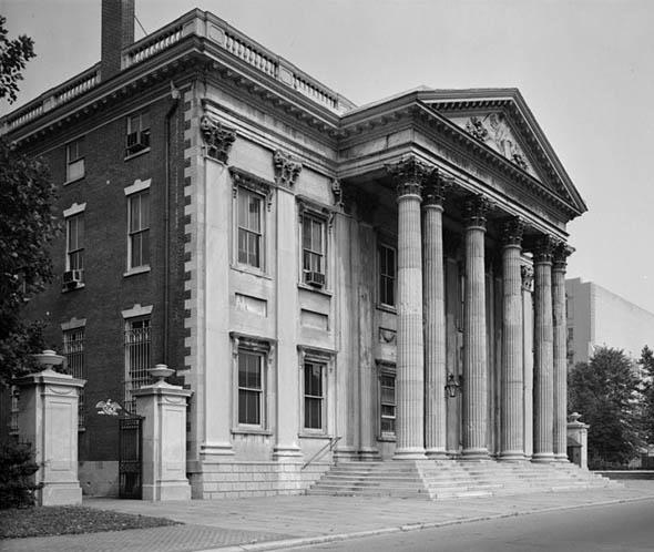 First National Bank of Philadelphia